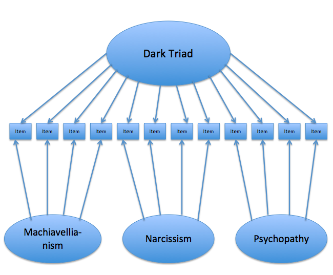 This is a diagram of the bi-factor model of the Dark Triad Dirty Dozen. The items load onto the composite Dark Triad factor and the three subscales.